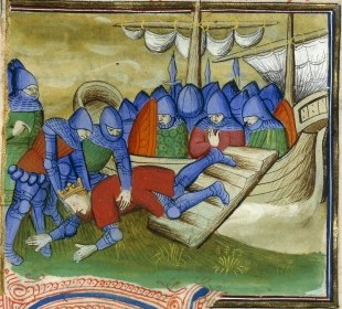 Landing of king Edward III of England à Saint-Vaast-la-Hougue, Normandy